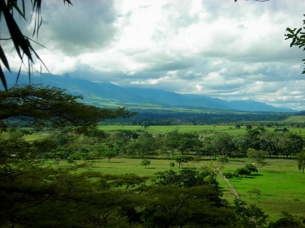 Colombian Llanos plains.